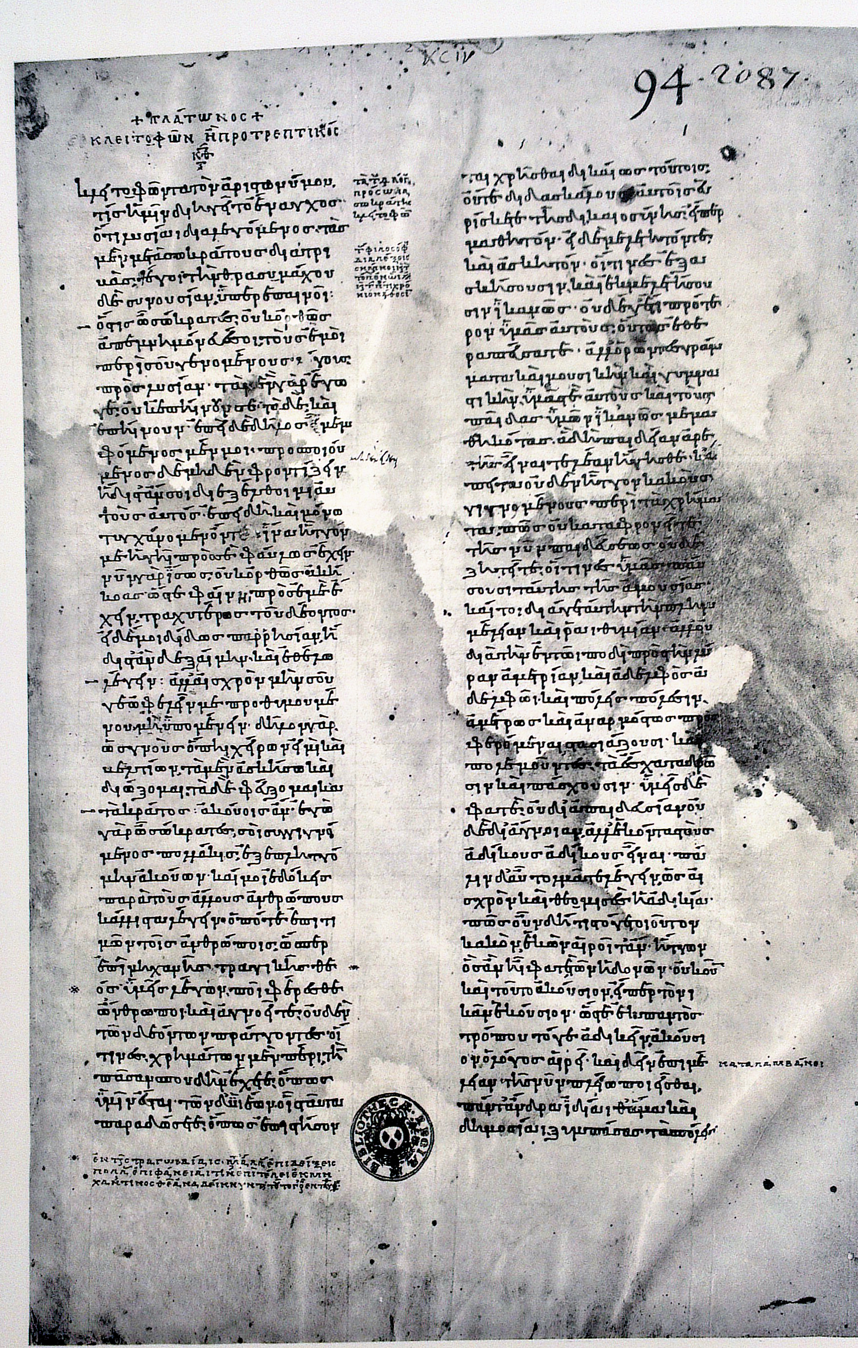 Page of the Codex Parisinus graecus 1807. Dialogue Kleitophon.